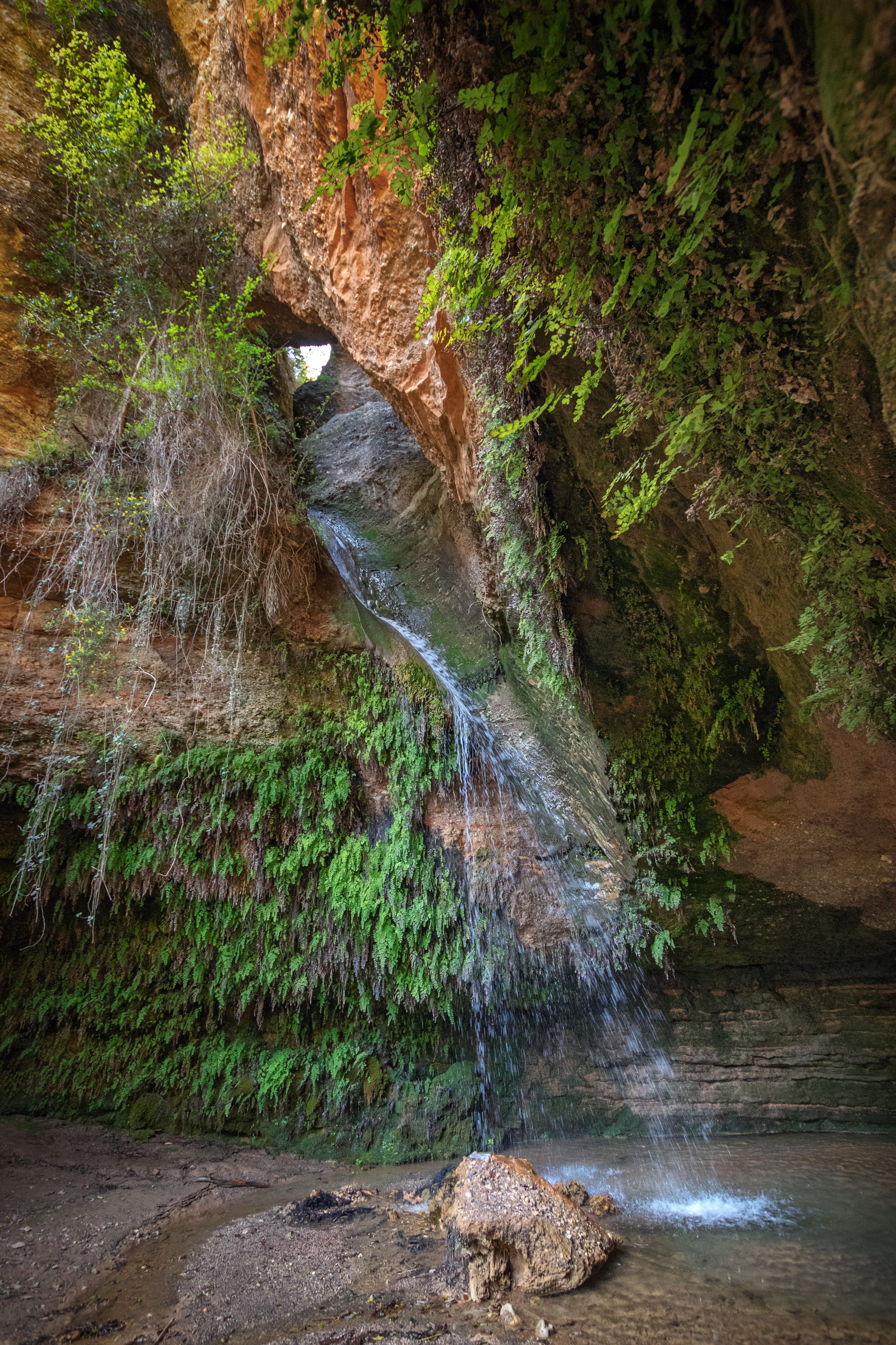 This is a photography of a Special Area of Conservation in Spain with the ID: ES5110018. Natura2000 entry, EEA entry